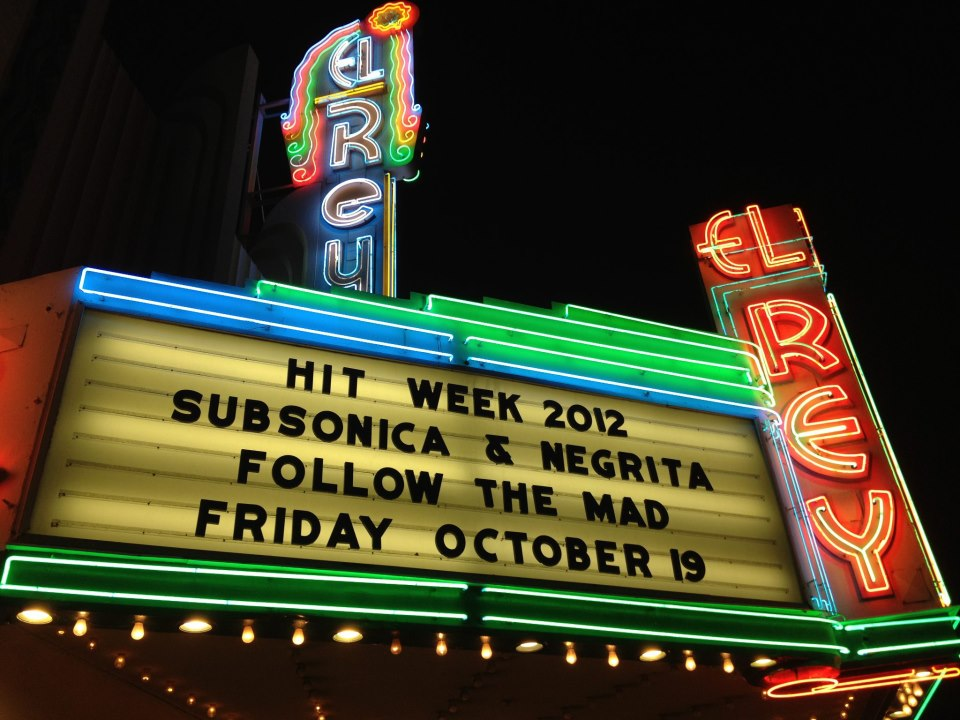 Last edition of Hit Week in Los Angeles